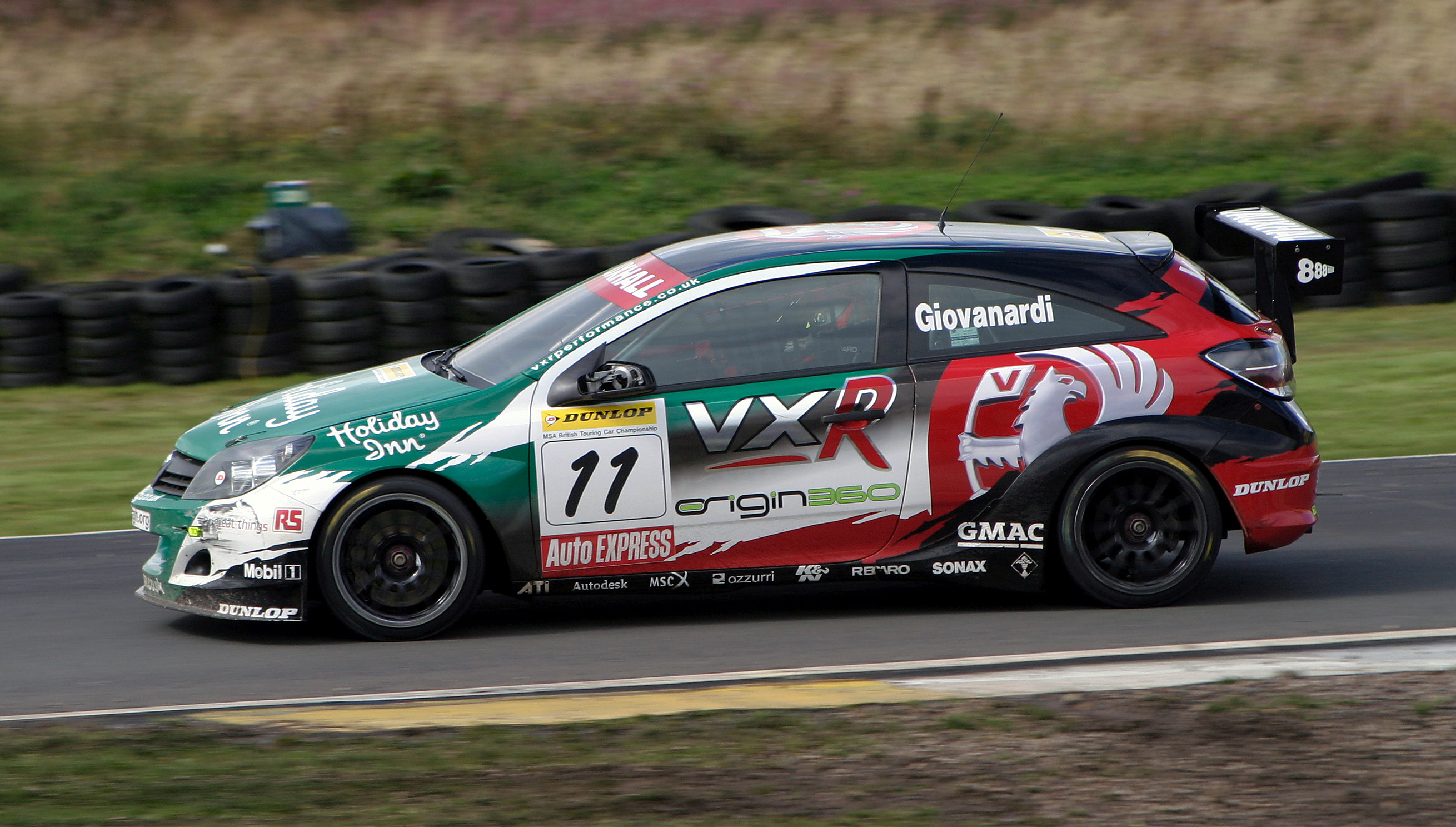 Fabrizio Giovanardi driving Vauxhall Astra at Knockhill (2006 BTCC season).